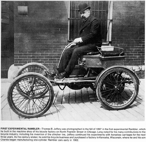 Thomas B. Jeffery in a prototype Rambler automobile, 1897. Public Domain - published before 1923